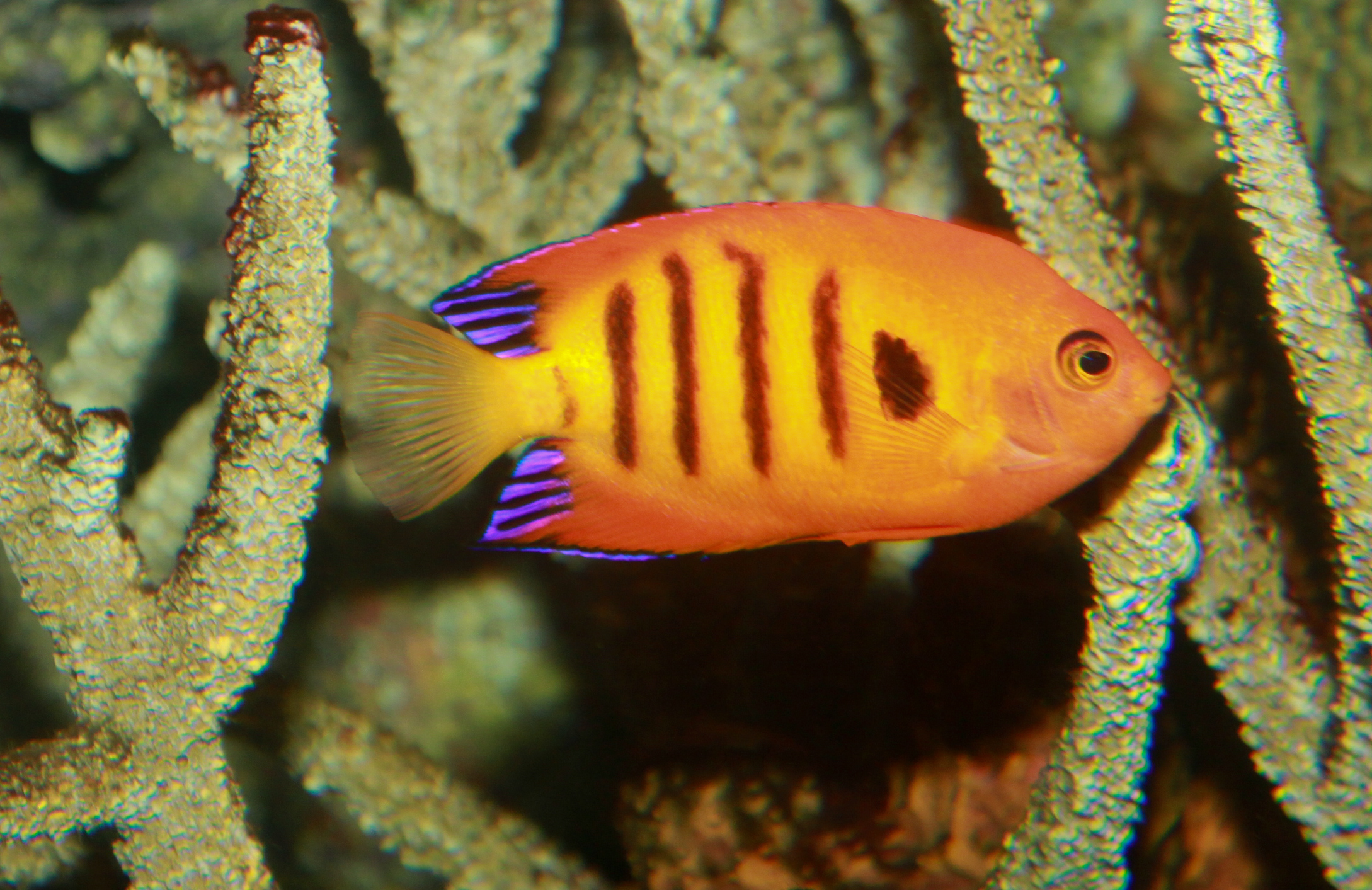 Flame Angelfish Centropyge loricula